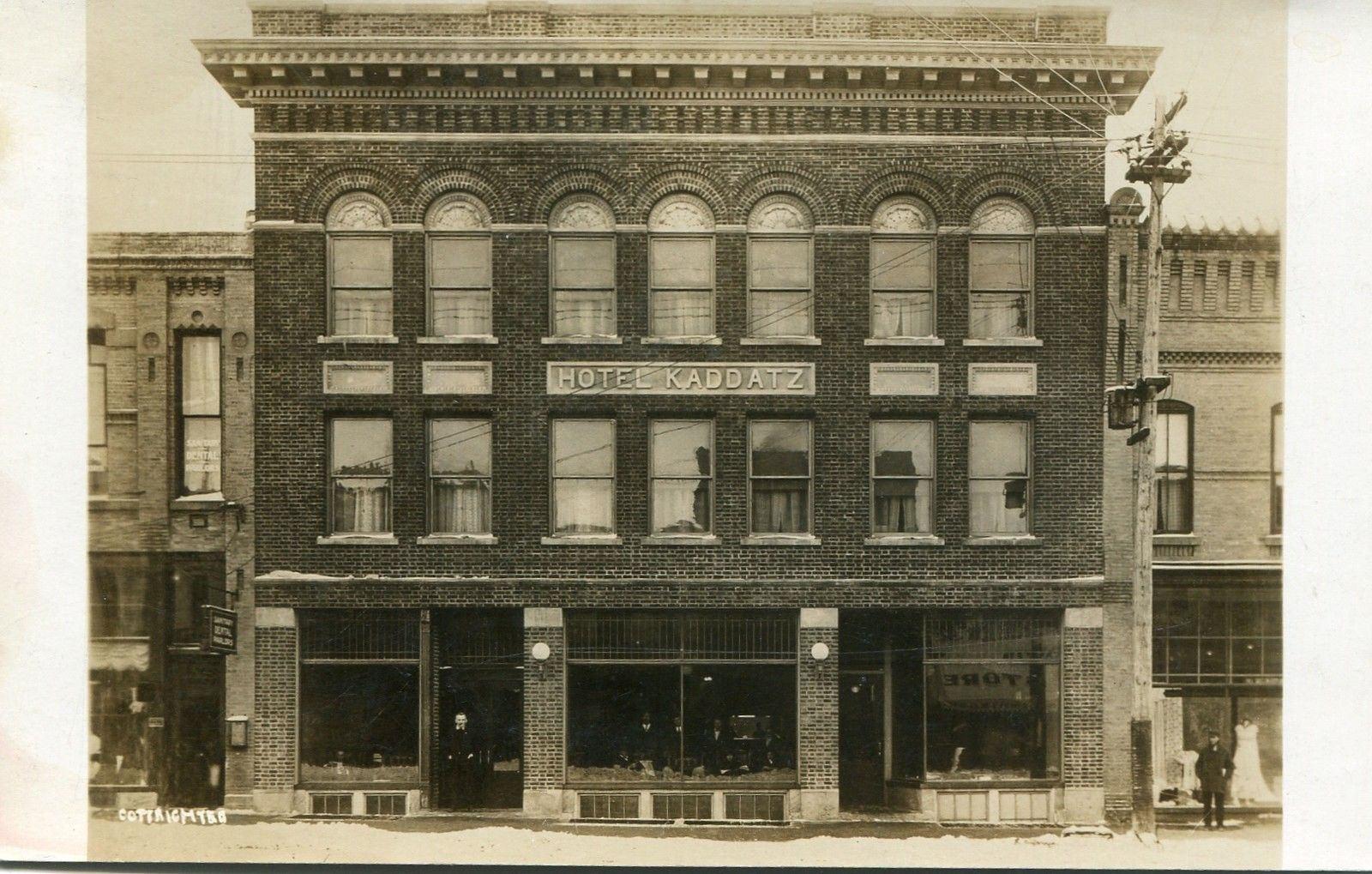 Hotel Kaddatz, Fergus Falls, Minnesota, United States